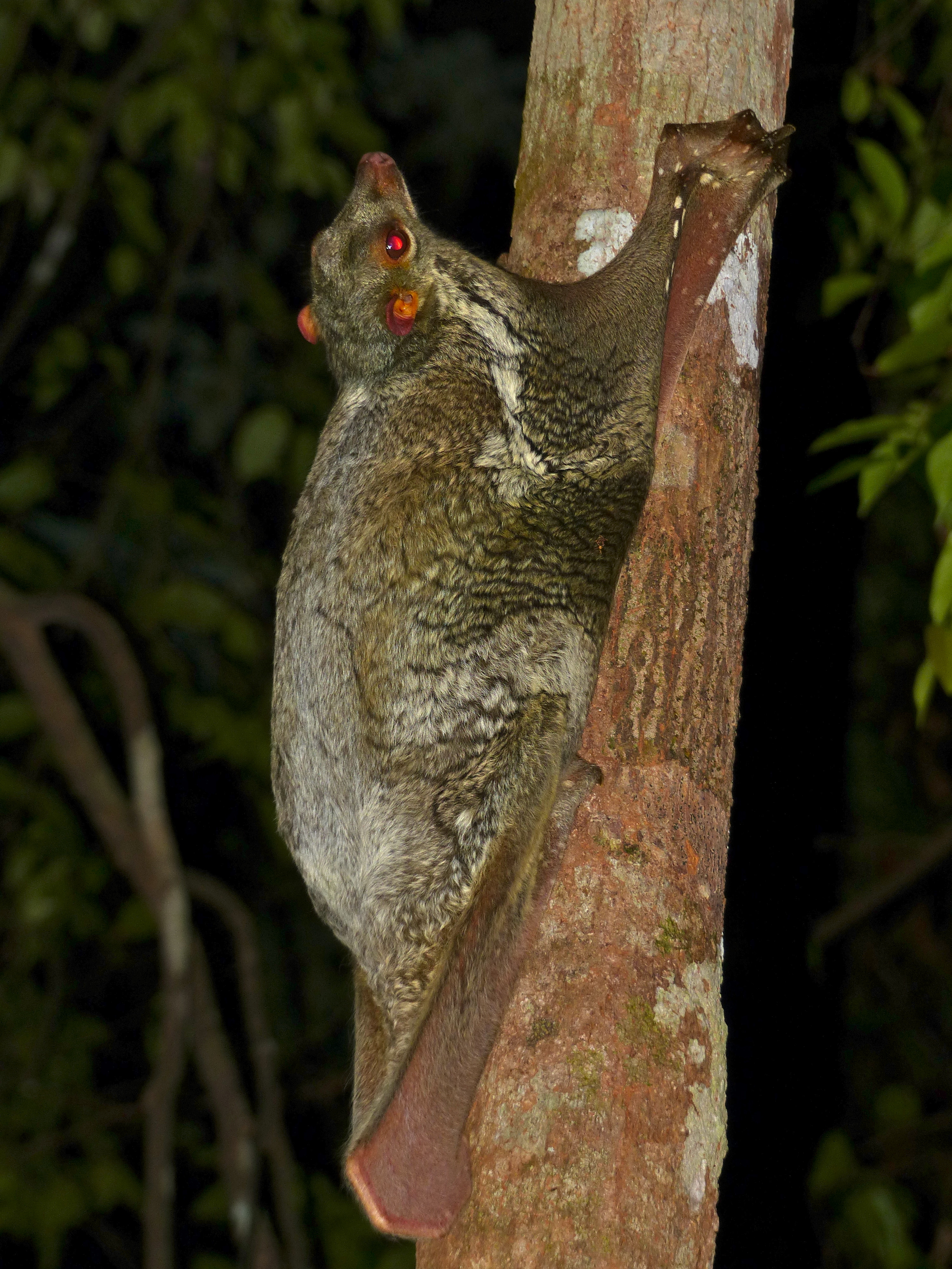 Permai Rainforest Resort, Santubong Peninsula North of Kuching, Sarawak, MALAYSIA